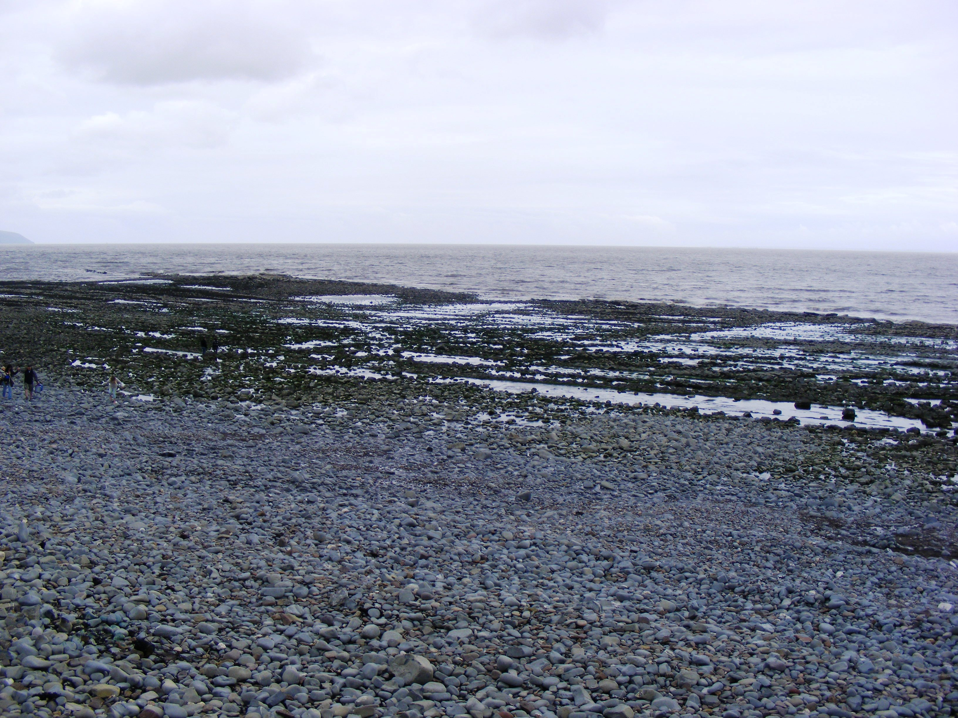 The wavecut beach at Kilve Somerset, with oil bearing shale